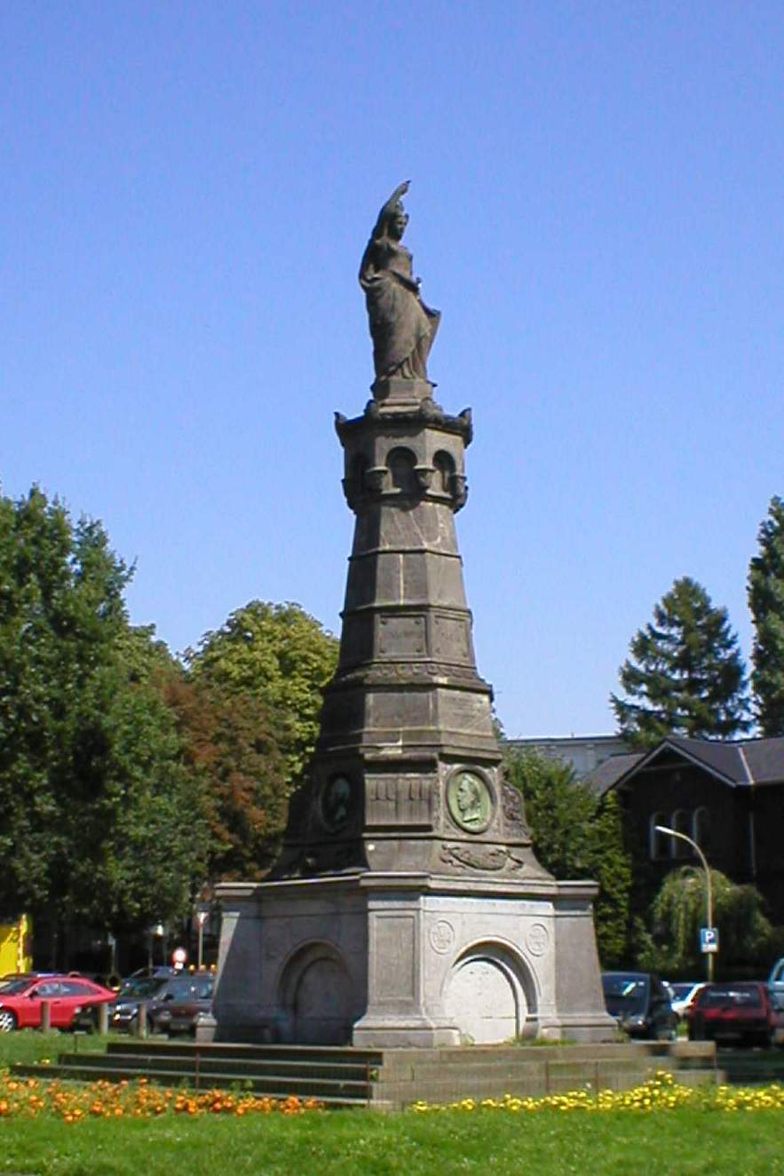 War memorial Kriegerdenkmal Germania on square Karl-Marx-Platz in Witten, Germany